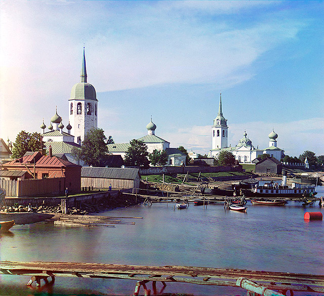 View of Novaya (New) Ladoga Town in 1911 with church of the Holy Mandylion, Saint Clement of Rome church, church of the Nativity of the Theotokos and Saint Nicholas church (from l. to r.).